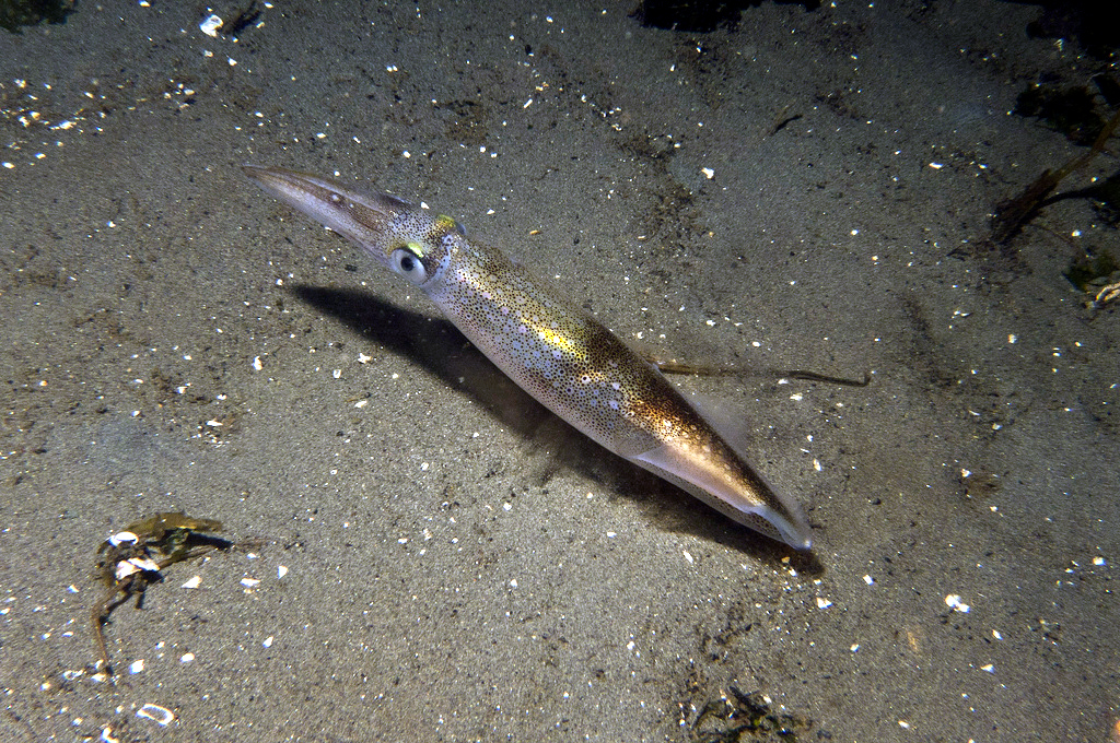 Opalescent Inshore Squid, taken off Alki Beach, Seattle, WA. Flickr url